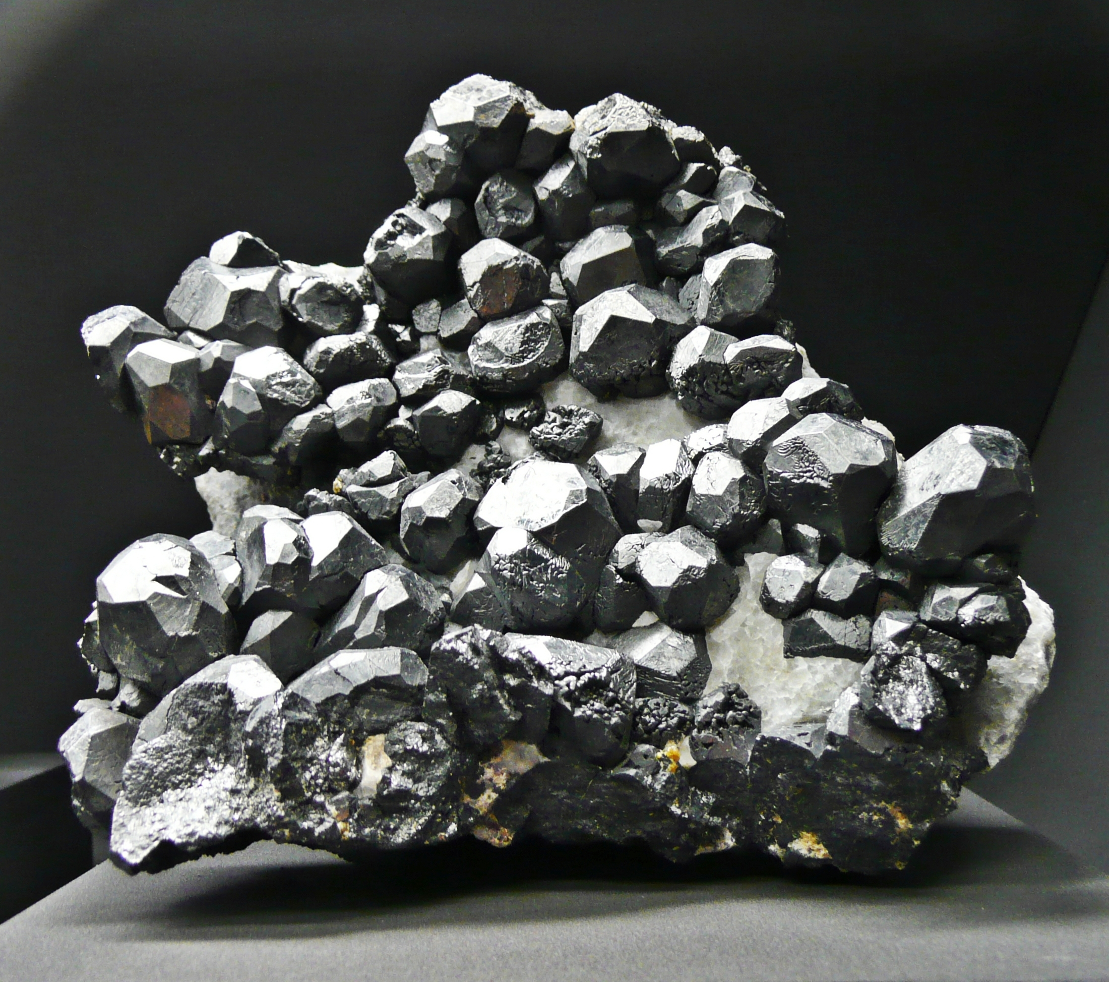 Magnetite (Fe3O4), location: Serafimovka, Primorsky Krai, Russia.